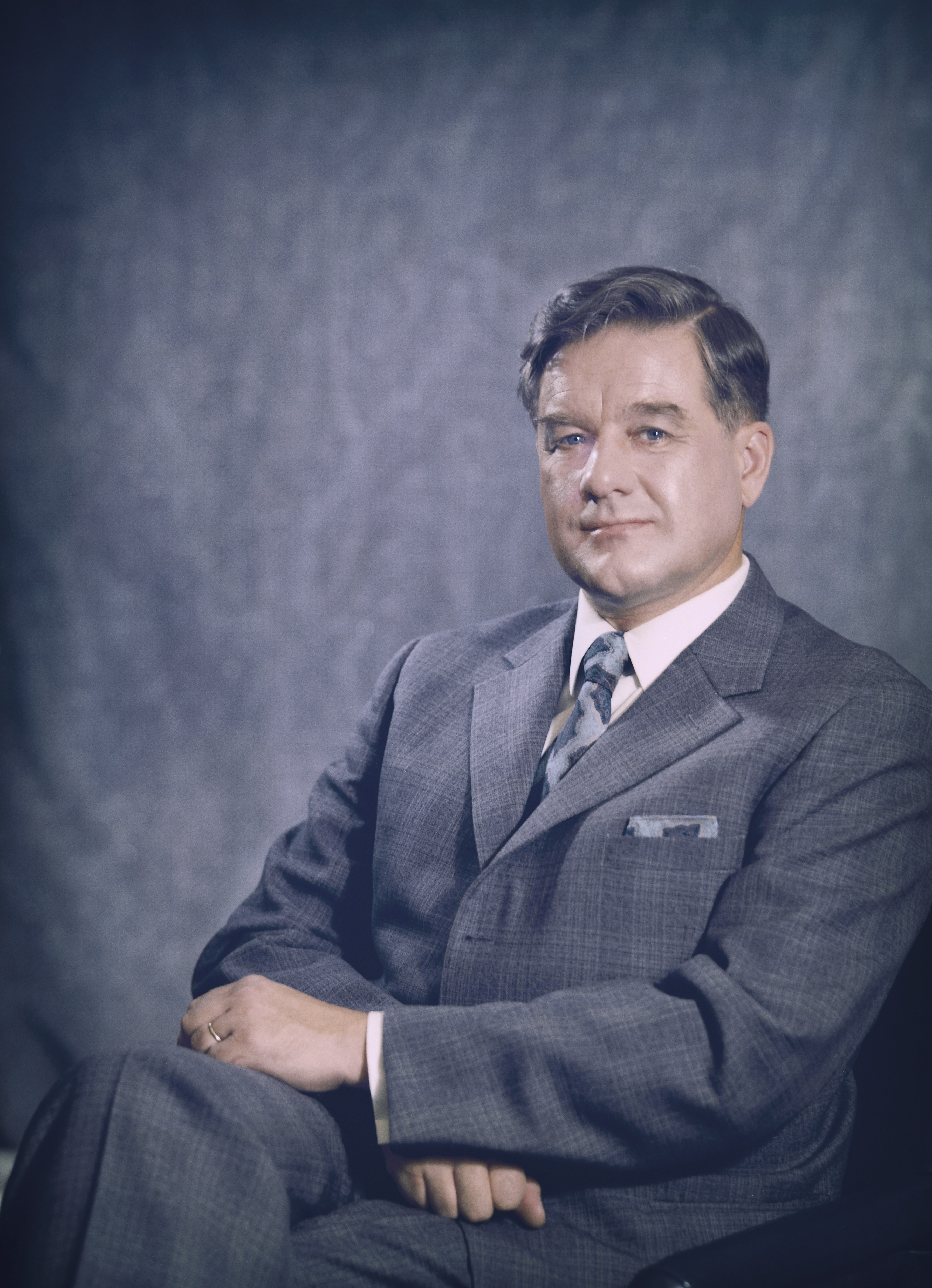 Photograph of the Finnish judge Antti Suviranta (1923–2008).